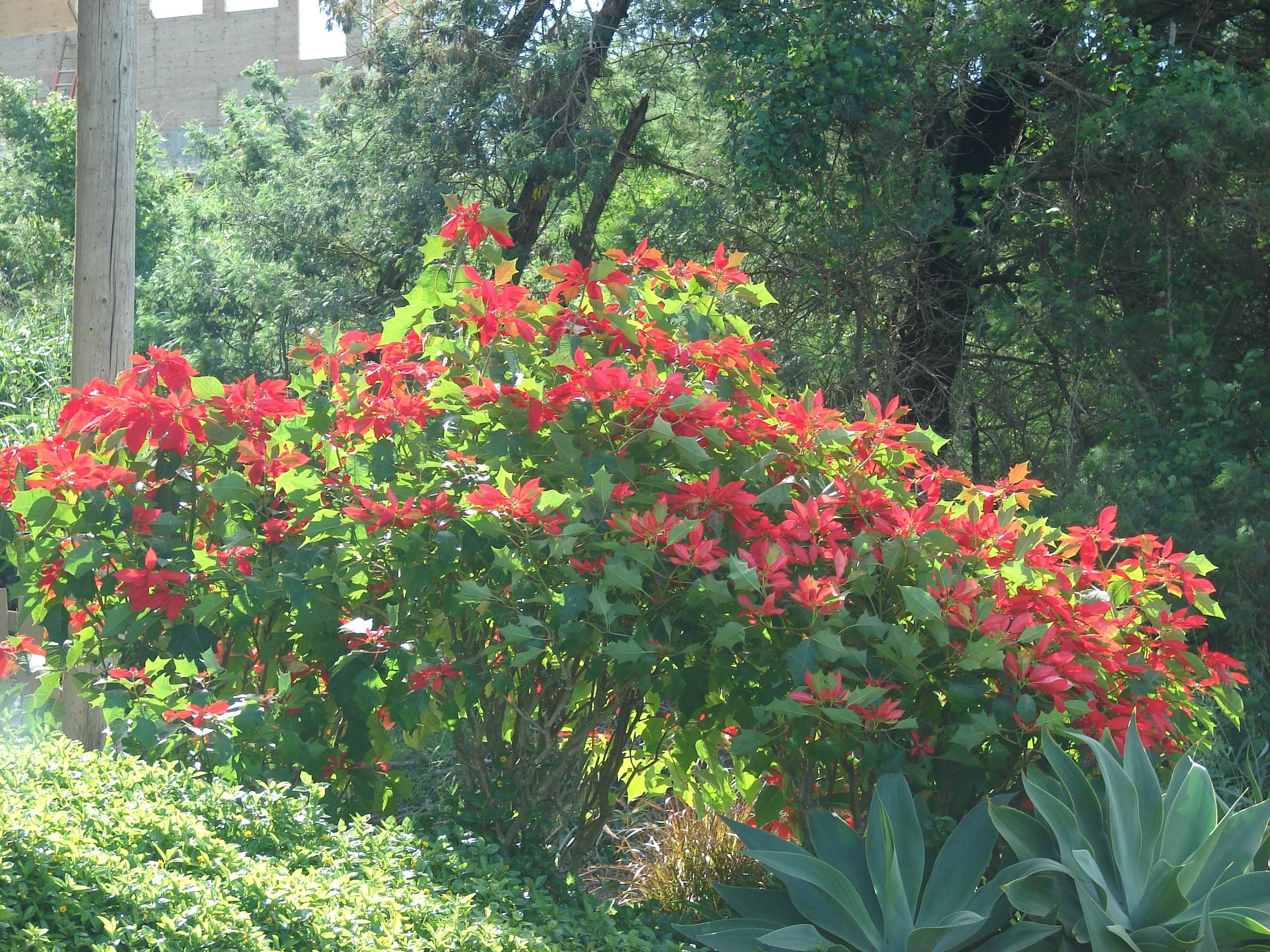 Euphorbia pulcherrima (flowering habit). Location: Maui, Old Kula Hwy Kula